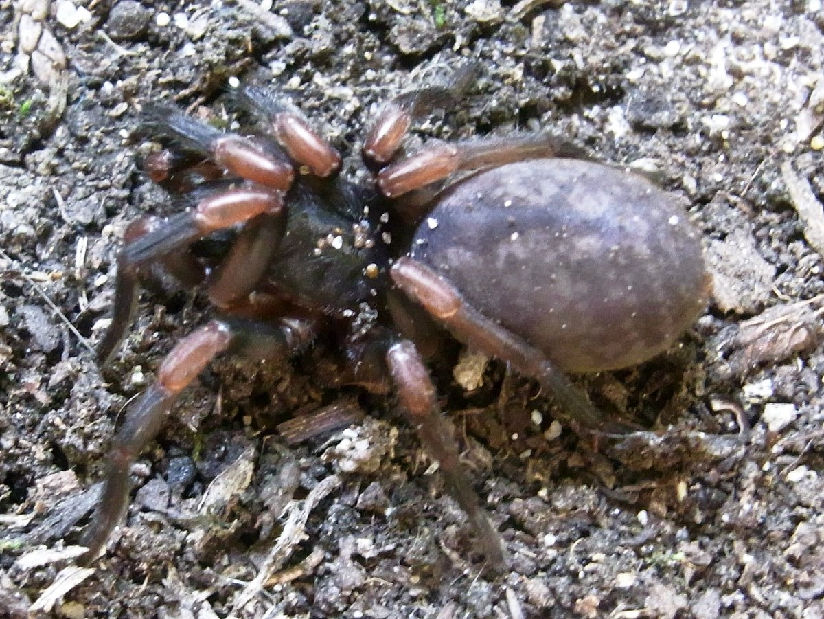 Stanwellia hoggi Chatswood West, Australia. Identified by Uni of Queensland , juvenile female.